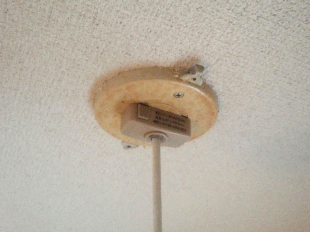 Japanese Ceiling Rosette (Connection fig.2)